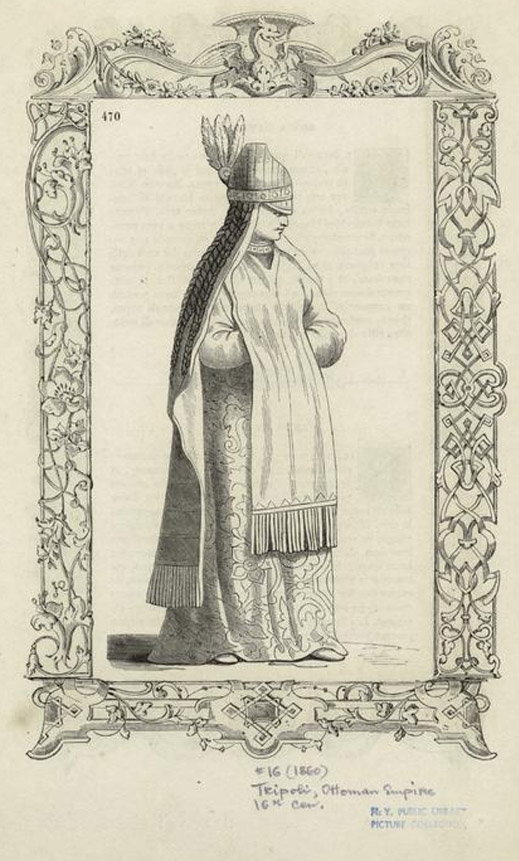 16th Century womens clothing and dress in Tripoli, Lebanon, during Ottoman Rule. Excerpt from a 1860 edition ([1])) of Cesare Vecellio's "Degli habiti antichi et moderni di diverse parti del mondo" (1590)